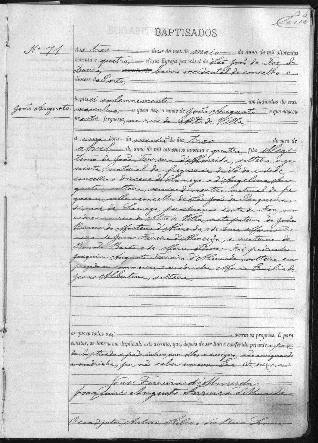 Baptism register (at the time, the equivalent of a birth record) of João Augusto Ferreira de Almeida (1894-1917), dated 3 May 1894. Foz do Douro Parish, Porto, Portugal.